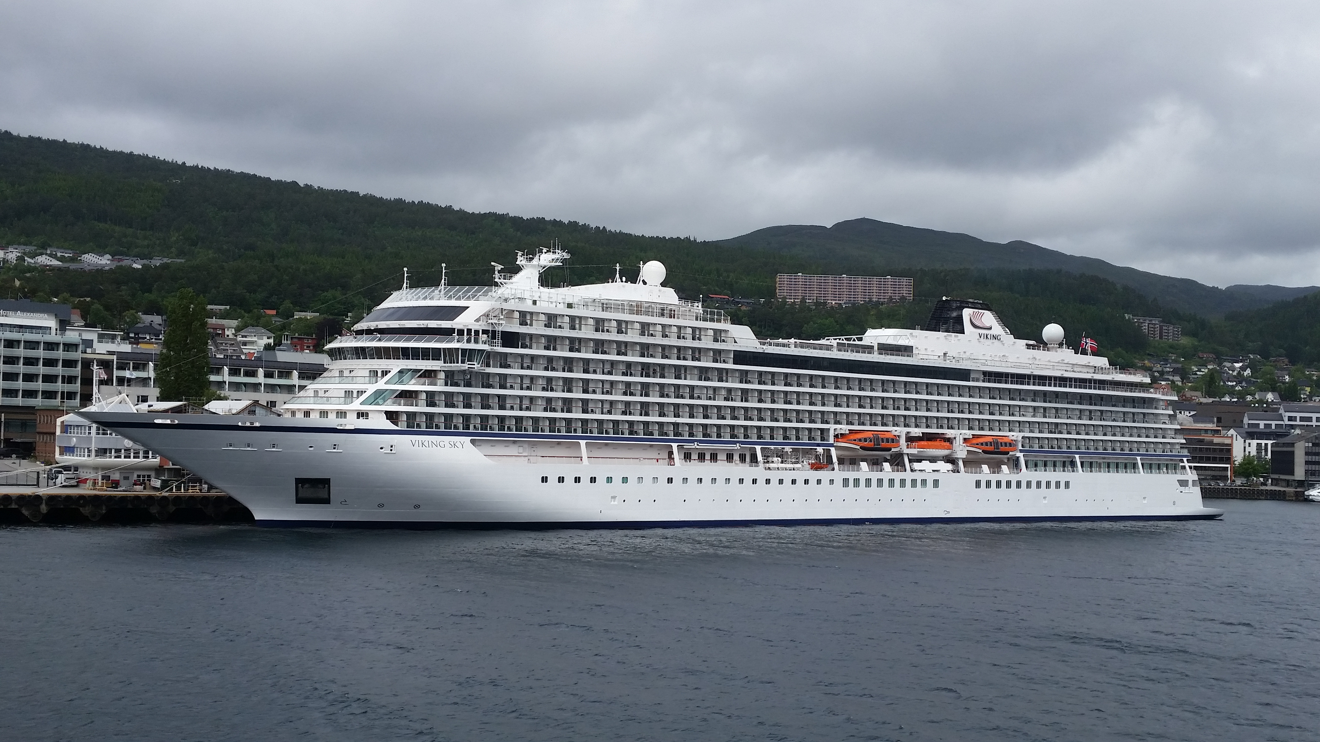 MV Viking Sky at Storkaia in Molde, Norway, on June 20, 2017.